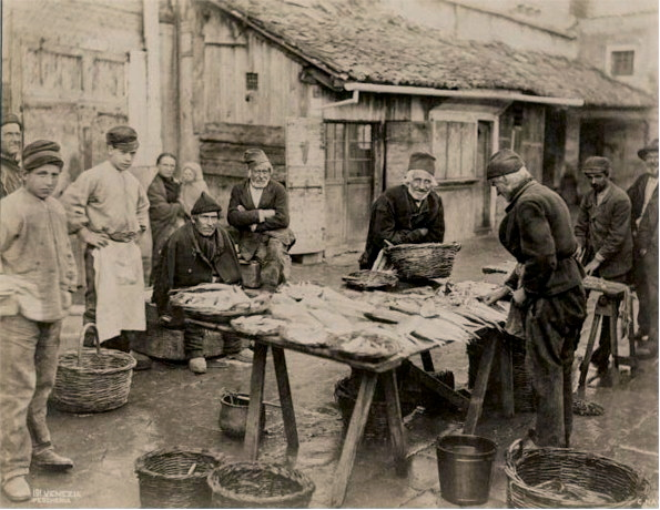 Carlo Naya (1822-1881) - Venice - Fishermen. Catalogue # 191.